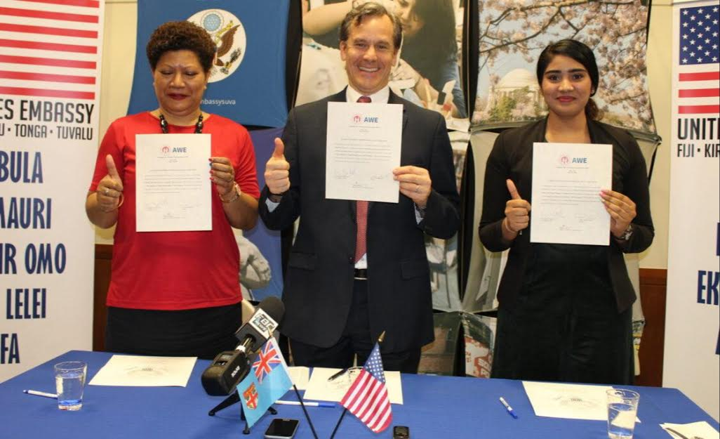 Ambassador Joseph Cella shows the signed grant with the Women Entrepreneurs Business Council